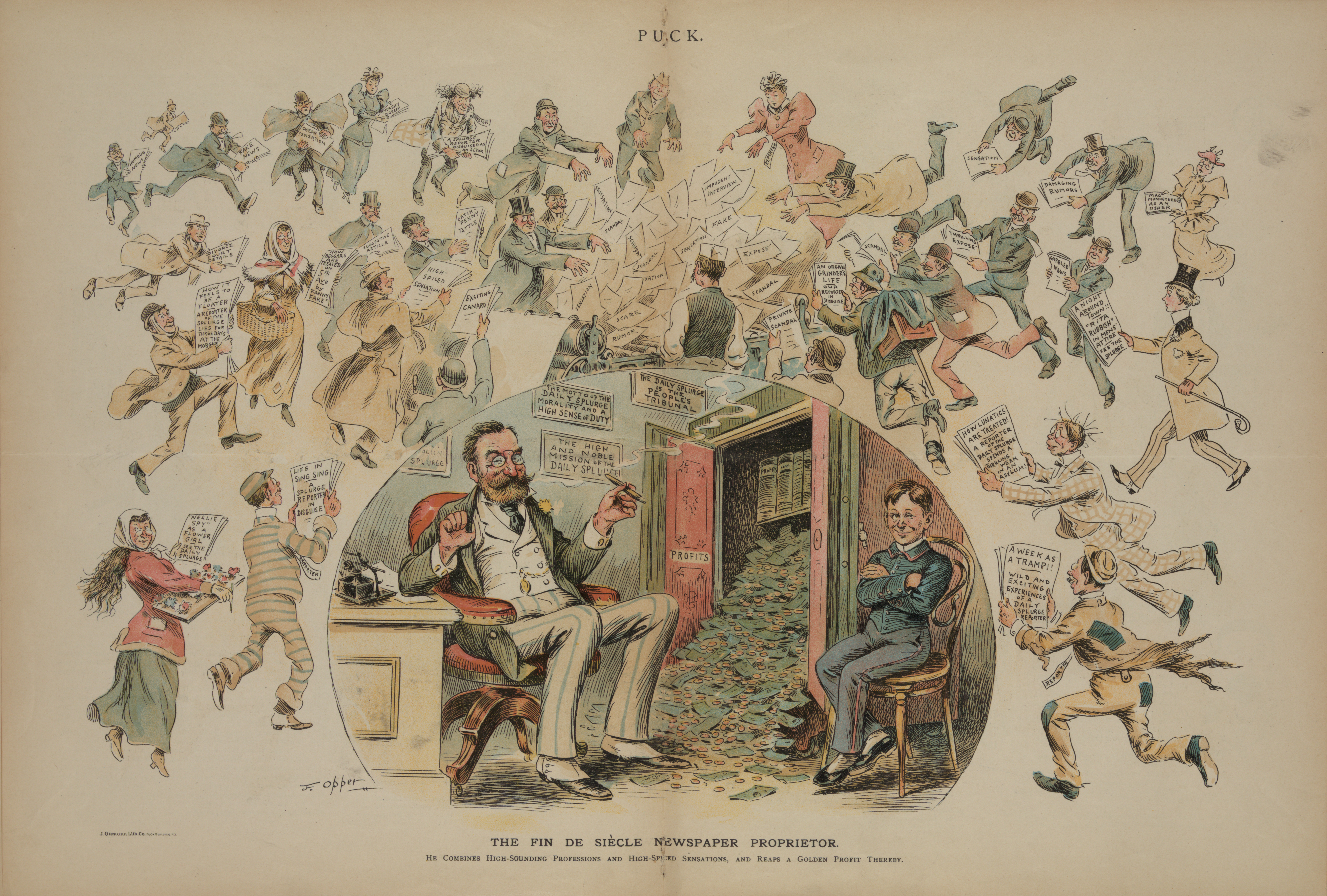 A newspaper owner, possibly Joseph Pulitzer, with a closet full of money. Outside, reporters run to toss their sensationalized stories into the printing press.